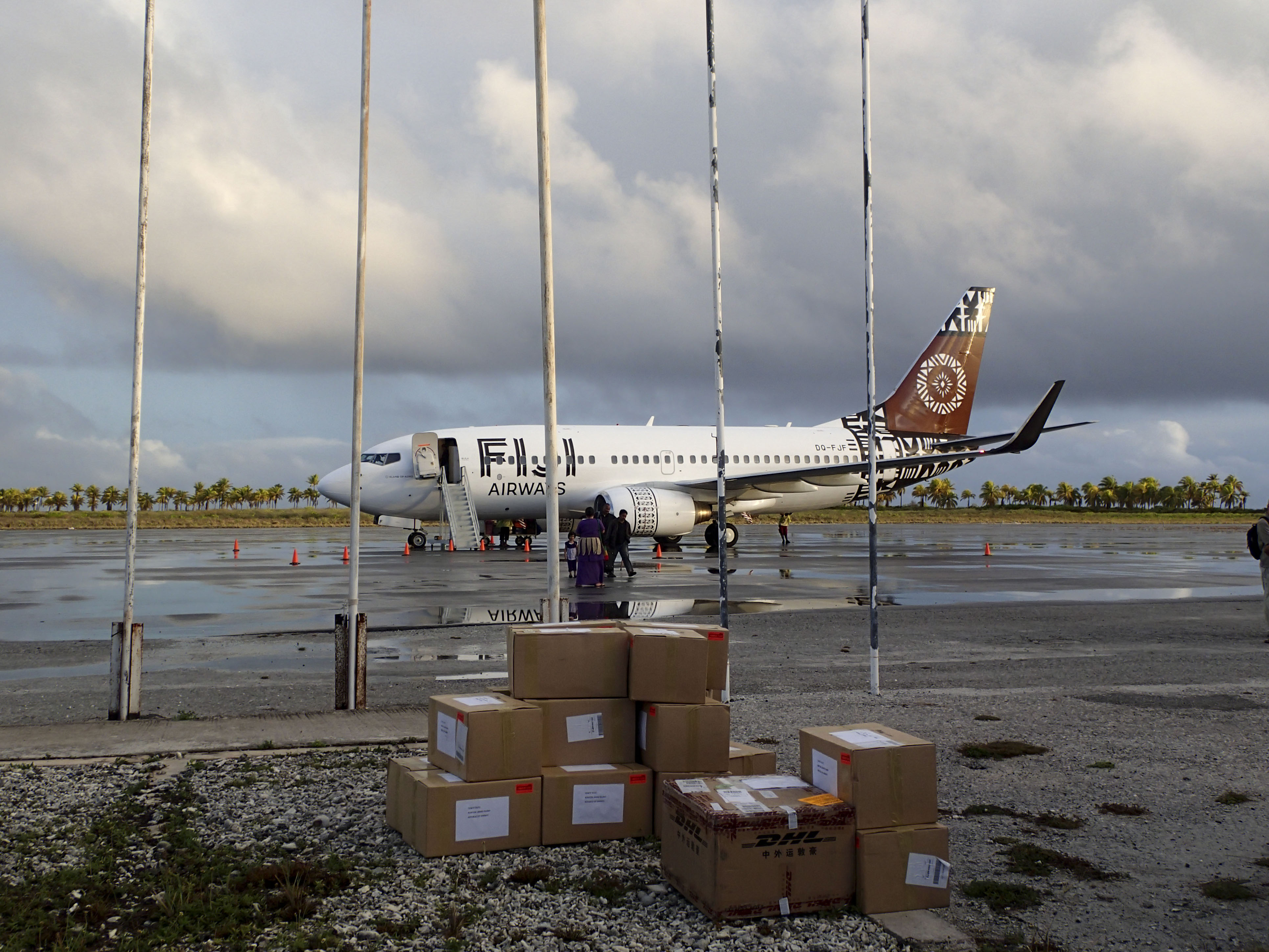 Air Pacific B737 at Cassidy, Kiritimati, Kiribati ex Nadi en route Honolulu 11 March 2014. Cargo has been unloaded.